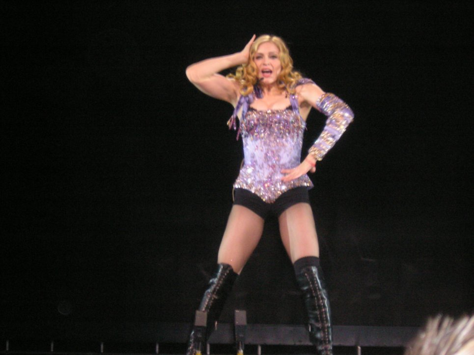 picture taken by a fan during one of the 2004 concerts